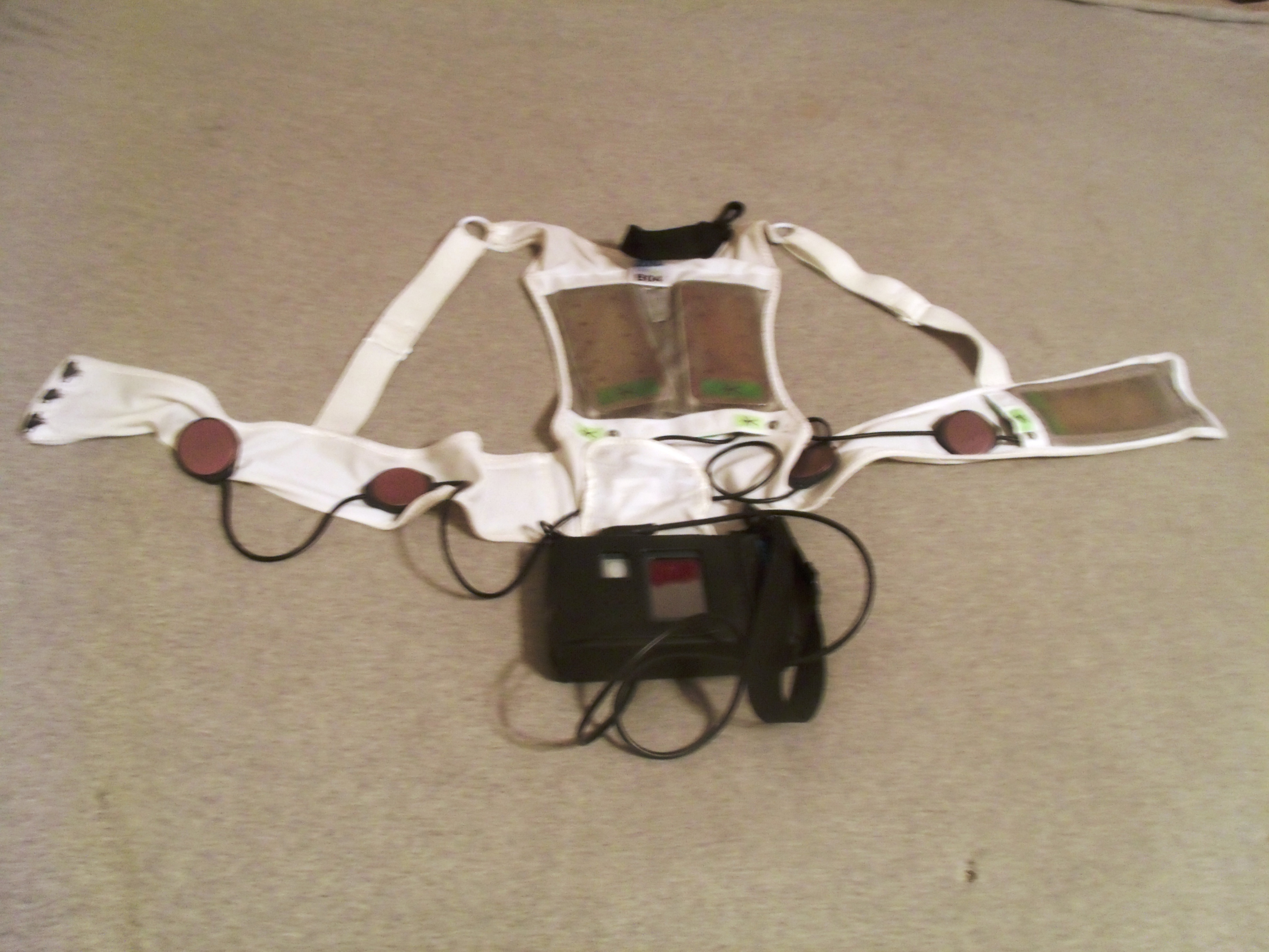 My, Tony the Marine's, wearable cardioverter defibrillator